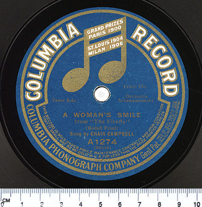 A woman's smile Columbia Graphophone Company., New York A 1274